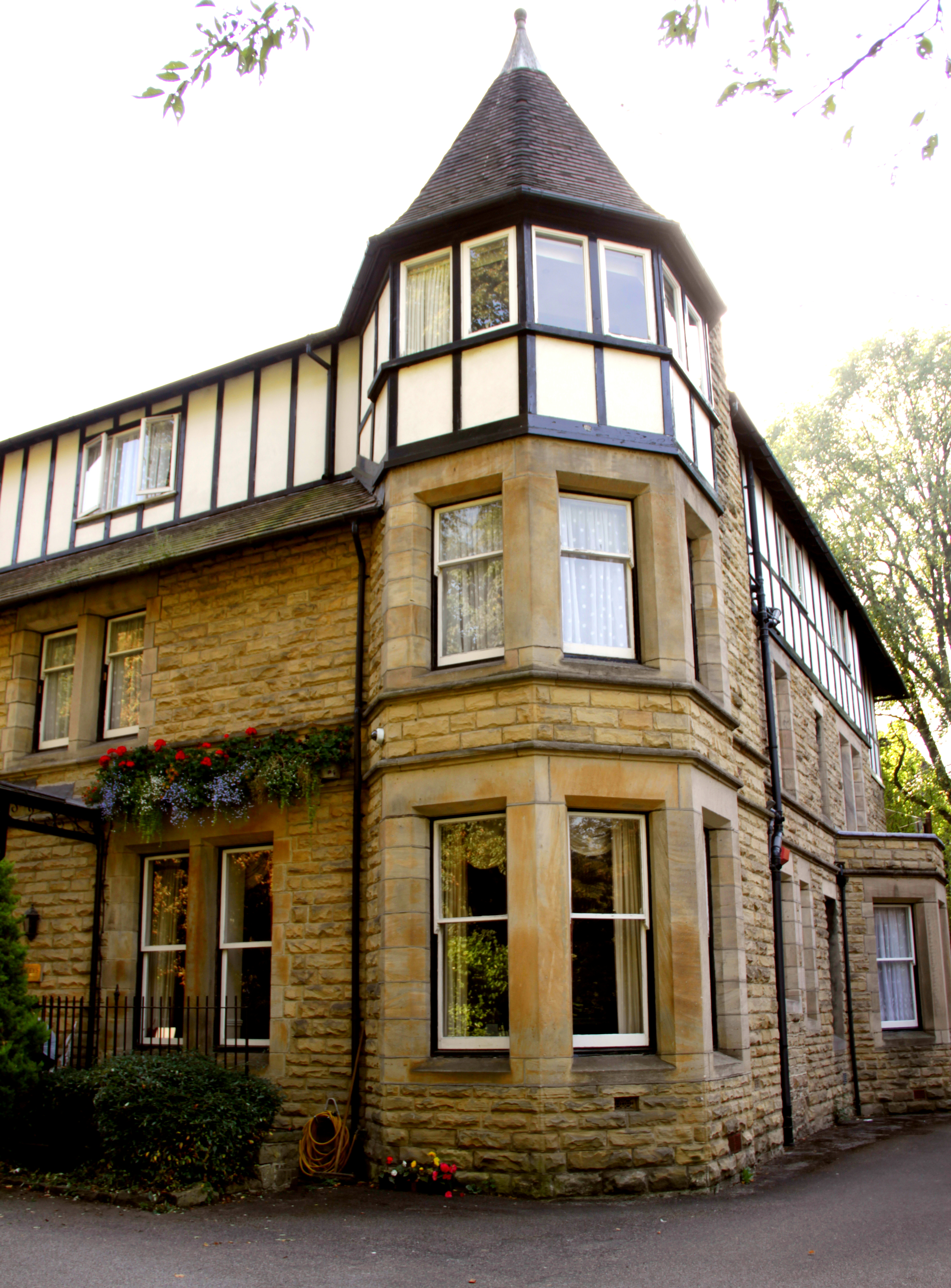 Ballamona, Shire Oak Road, off Otley Road, Headingley, West Yorkshire, England. This is an unlisted building, designed and built in 1887 by architect George Corson, and owned and rented out by him for many years. It was a pair of semi-detached villas, rented mostly by businessmen until 1950, when it was combined into one and named Hartrigg Hotel. As of 1990 it has been Haley's hotel. At some time between 1891 and 1897, the Willson Group of artists became tenants, and they used the building as a home and studio until at least 1902. Corson and the Willson Group knew each other, and in 1901 the Leeds and Yorkshire Architectural Society commissioned a portrait of Corson from Mary A. Hilliard Willson. That portrait would have been executed or completed in this building. It is not known which part was used as the studio, but the bay windows on the north-west corner, and the top-storey north windows, would have afforded the best light. The best light of all is given by the top bay window under the north west turret. Showing the north-west corner, or right-hand half of the building, which was originally Ballamona. Note the turret of bay windows, where the Willson Group may have used the light for painting.